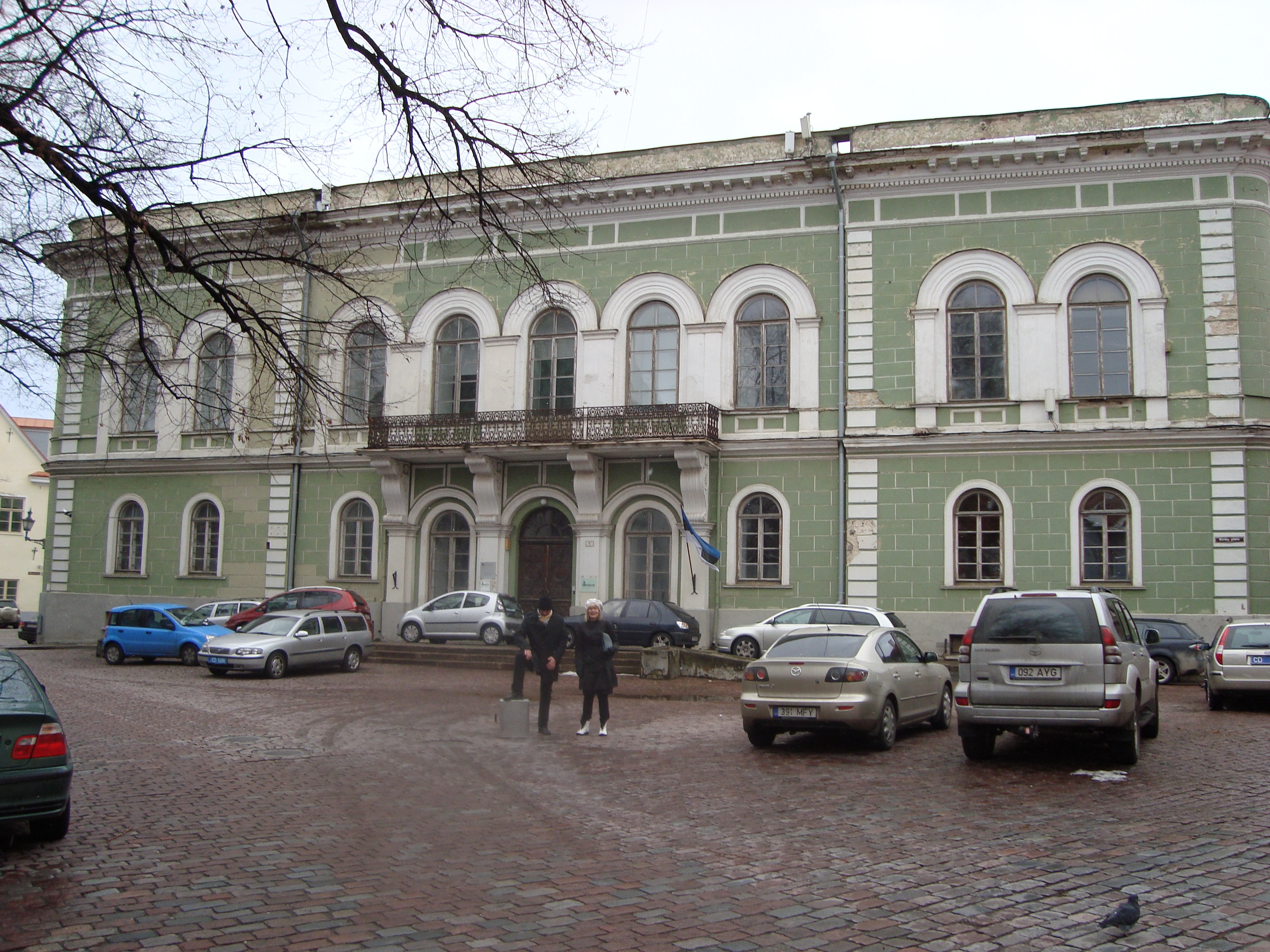 Estonian Academy of Arts, Tallinn